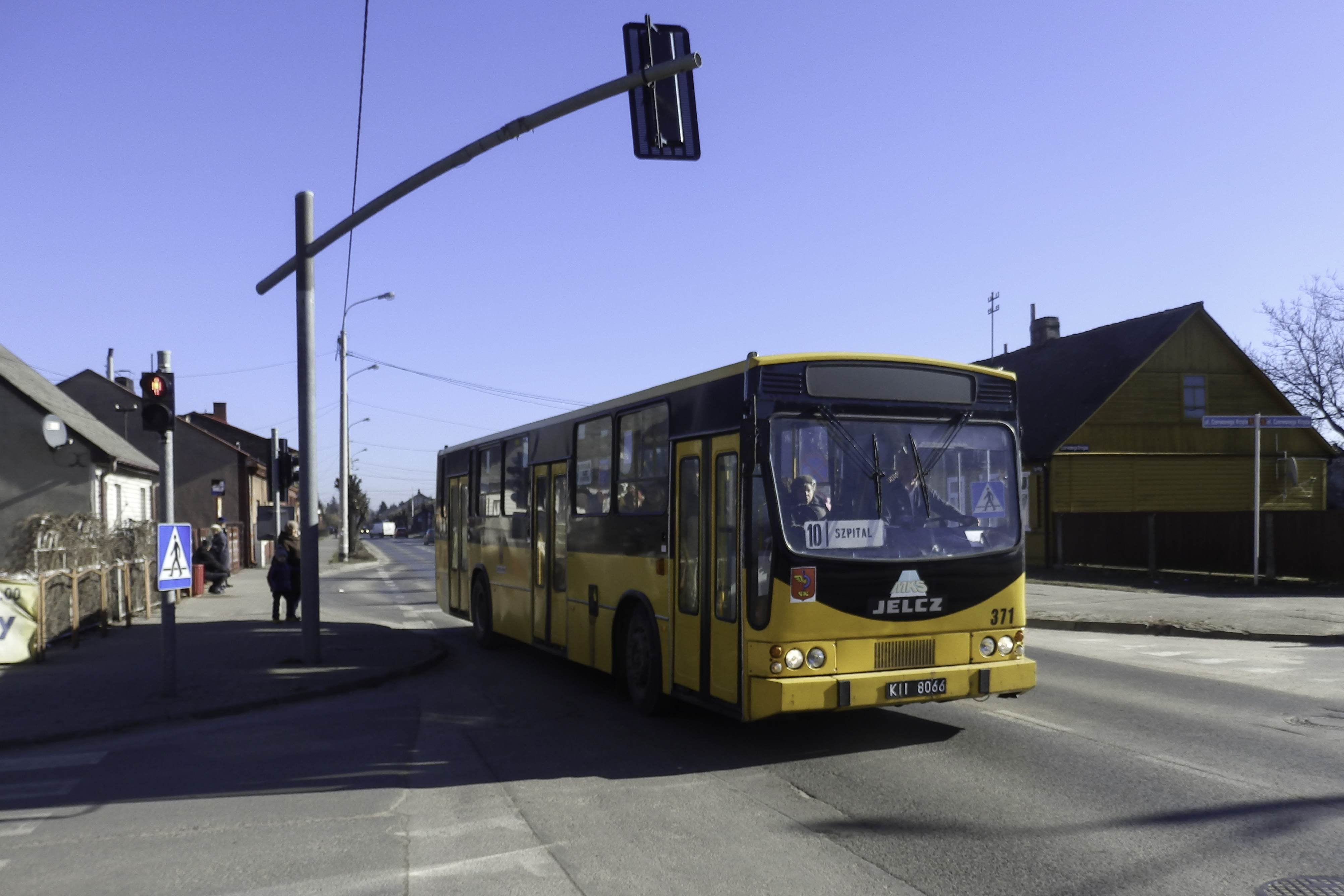 Jelcz PR110M #371 belonging to MKS, operating line 10 to District Hospital, in 1st of May street in Skarżysko-Kamienna.